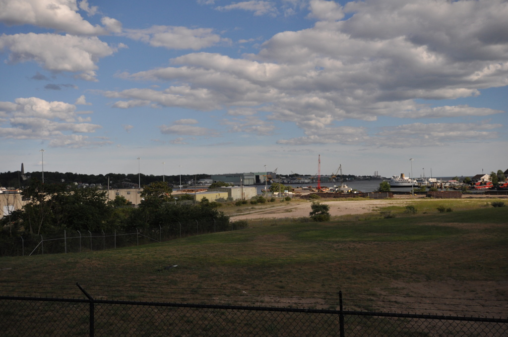 Central Vermont Railroad Pier, looking south from State Pier Road, New London, Connecticut.